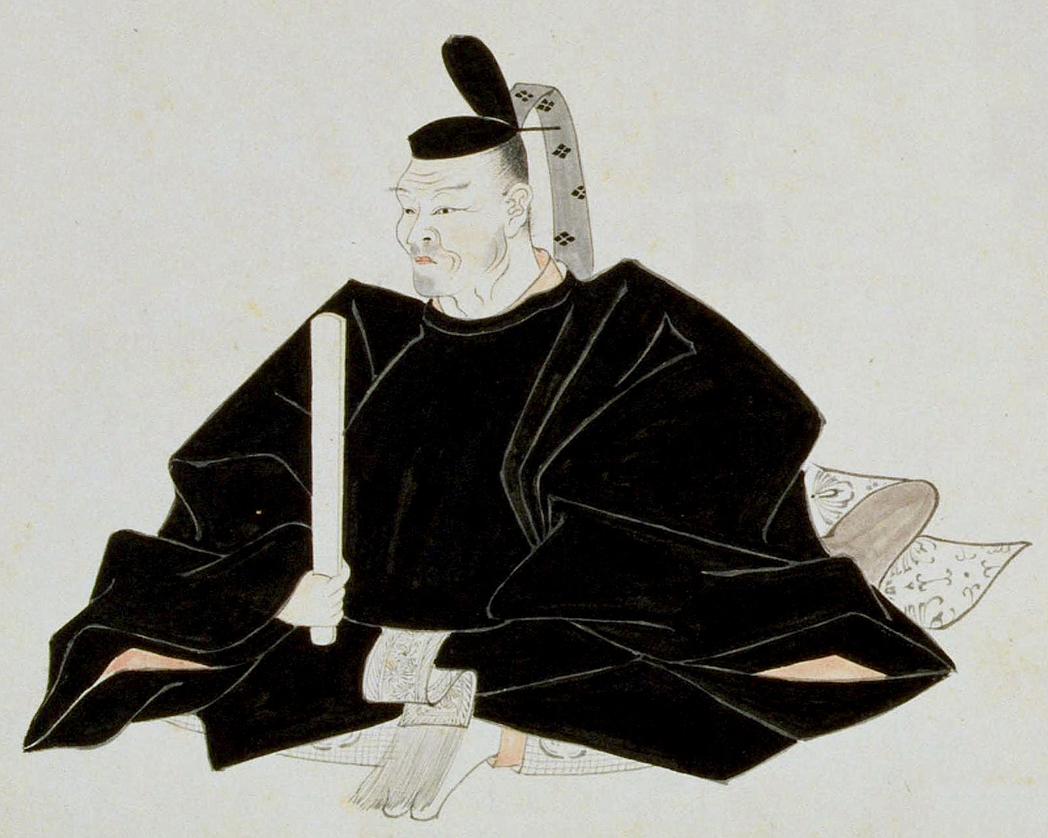 A Portrait of Harusue Imadegawa (Kikutei) (1539–1617) by Nobumitsu Kurihara (1794–1870). A collection of National Diet Library.